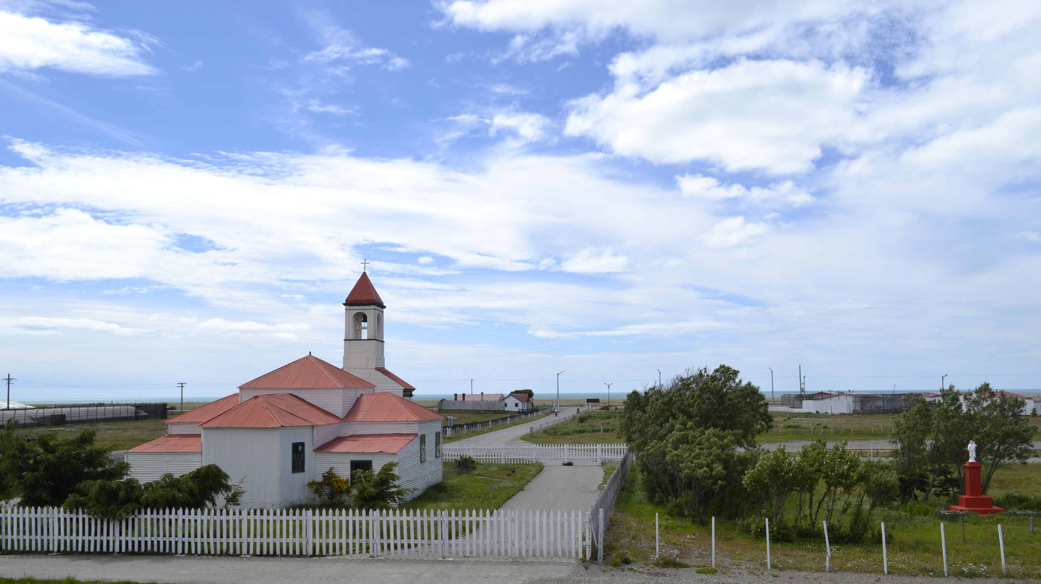 Complejo educativo, cultural e histórico, fundado por la congregación religiosa Salesiana de Don Bosco. Allí se encuentra la Capilla de la Candelaria y el Museo Histórico y de Ciencias Naturales Monseñor José Fagnano; también funciona una Escuela Agrotécnica de enseñanza media . Declarado Monumento Histórico Nacional en 1983.